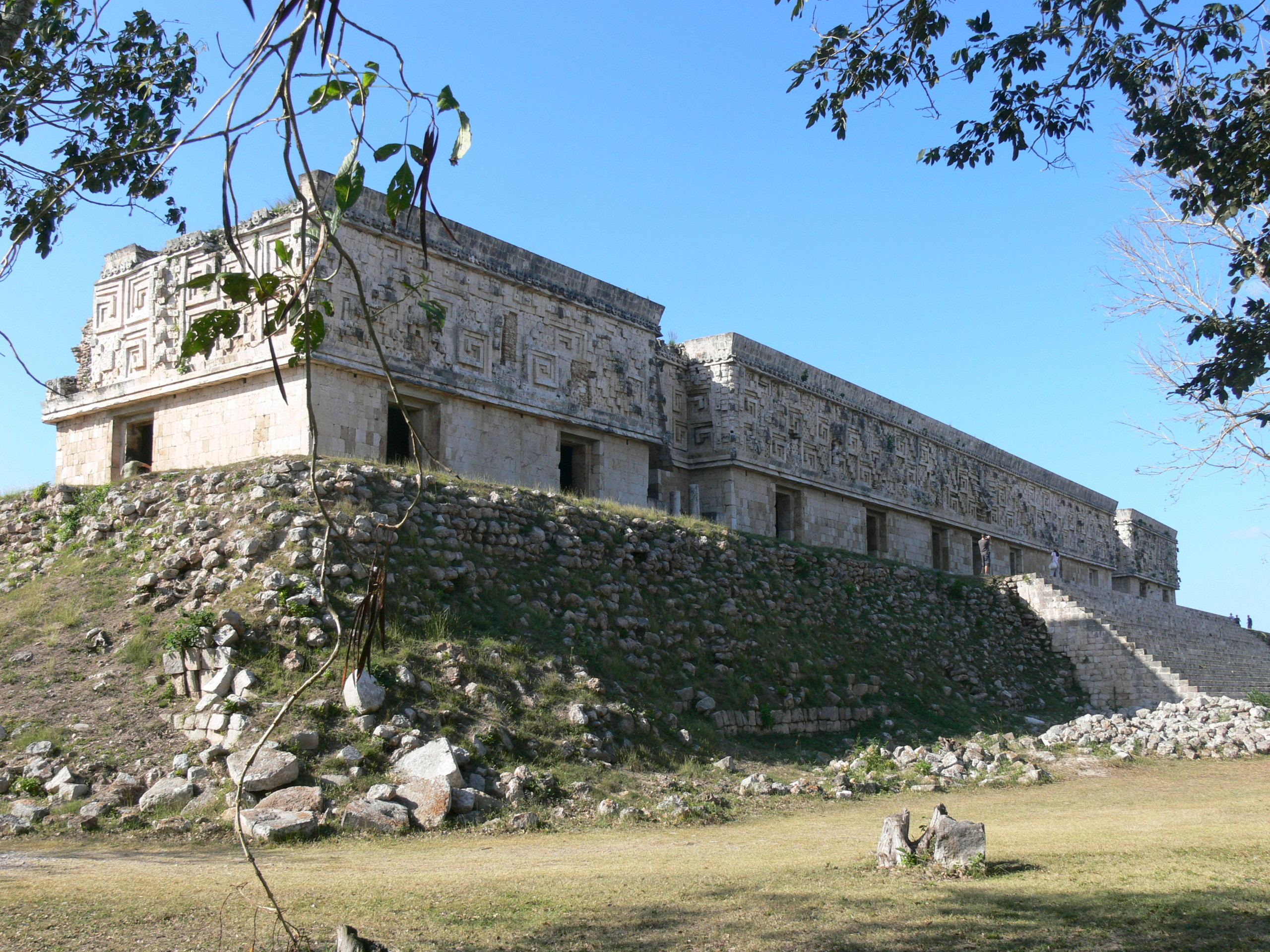 Uxmal ( Yucatan ). El Palacio: Western facade